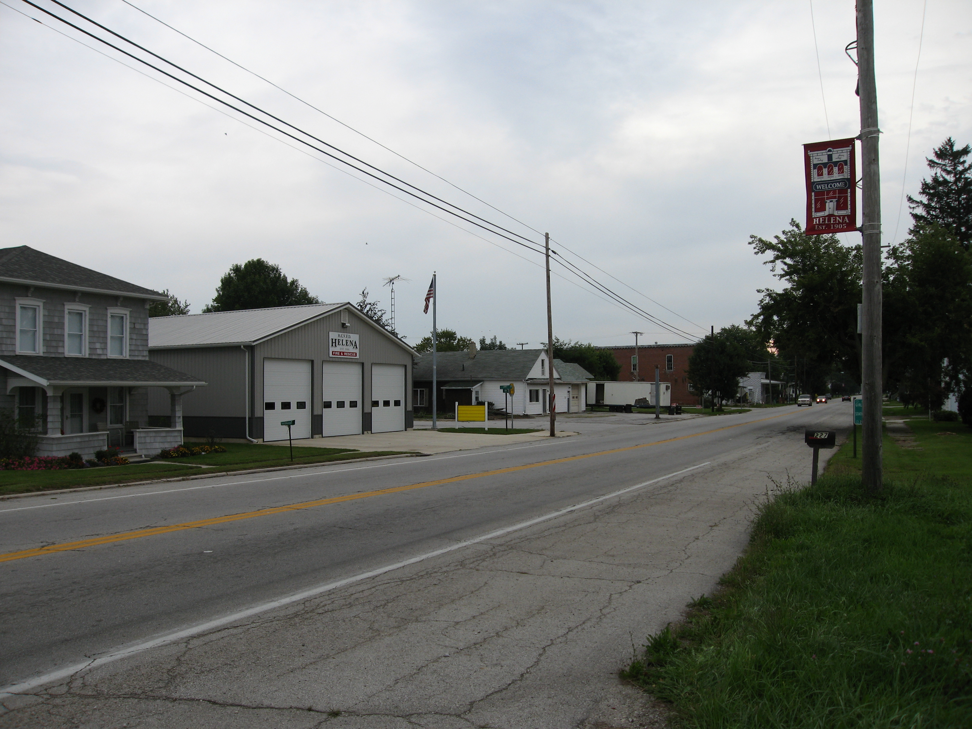 Photograph of the village of Helena, Ohioen, taken at street level from Main Street, looking East on U.S. Route 6.